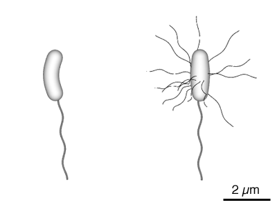 Schematic diagram of Vibrio, representing of two pathogenic species. (left) V. cholerae. Typical form of Vibrio; comma-like bacteria with thick monotrichous flagellum. (right) V. parahaemolyticus. Atypical form; straight bacteria with two kind of flagella, thick monotrichous one and thin peritrichous ones.